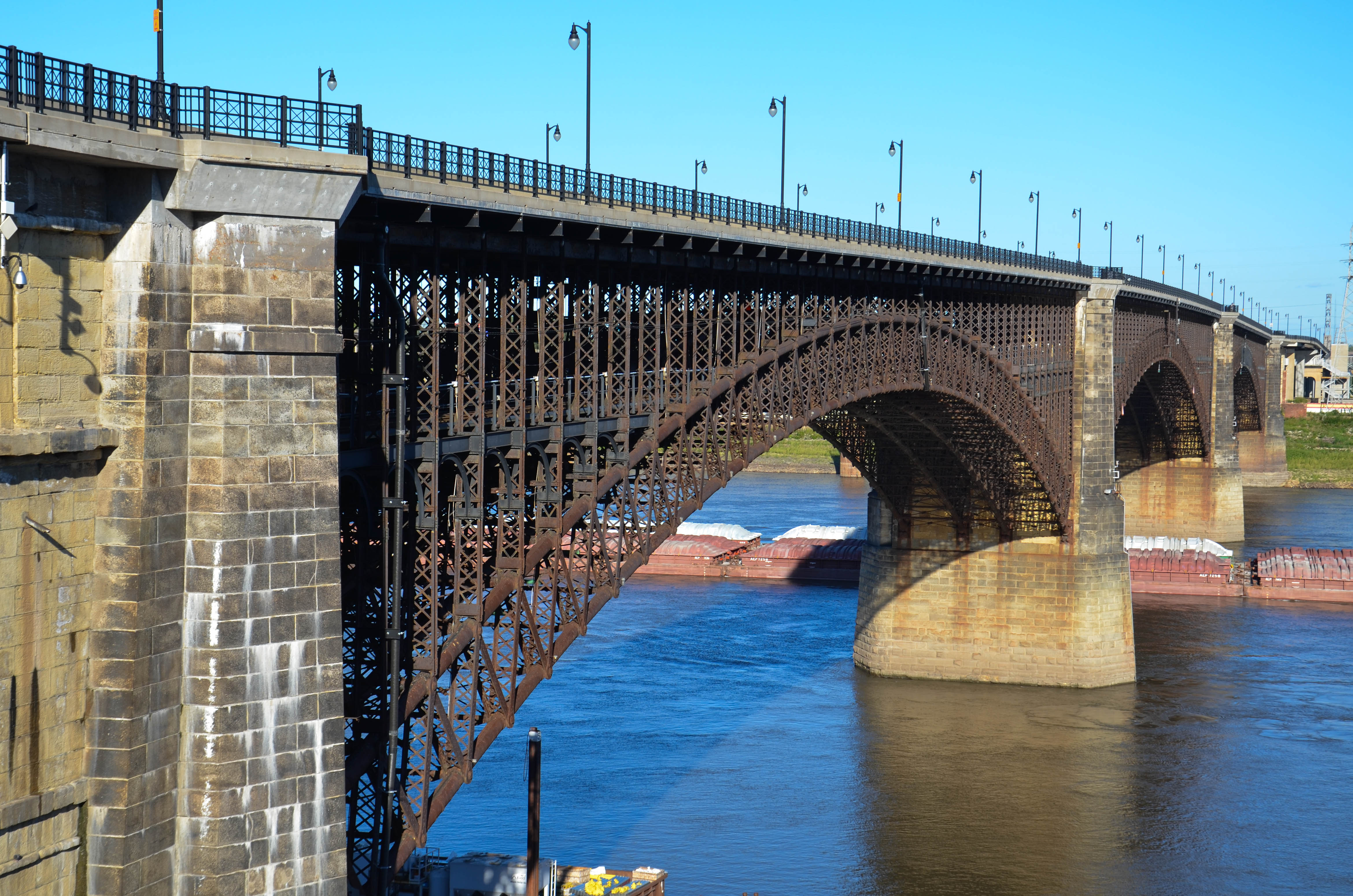 Eads Bridge from Laclede's Landing